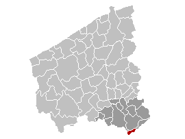 Map of the province West-Flanders, showing Spiere-Helkijn (Espierres-Helchin) municipality in red, and Kortrijk arrondissement in dark